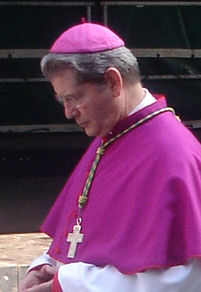 Mgr. Laurent Ulrich, archbishop of Lille